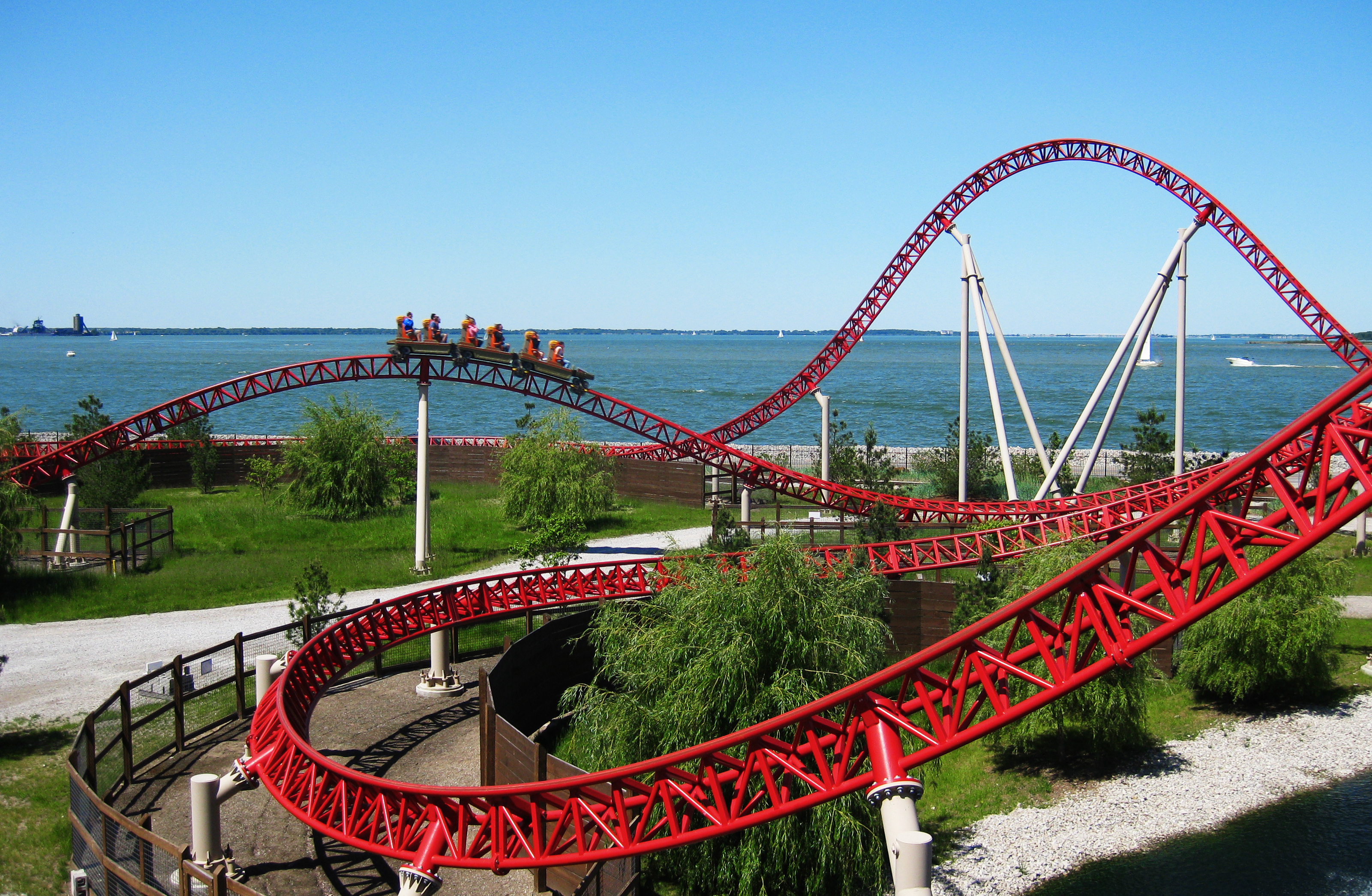 Maverick's hill and train located at Cedar Point amusement park with Lake Erie in the background.